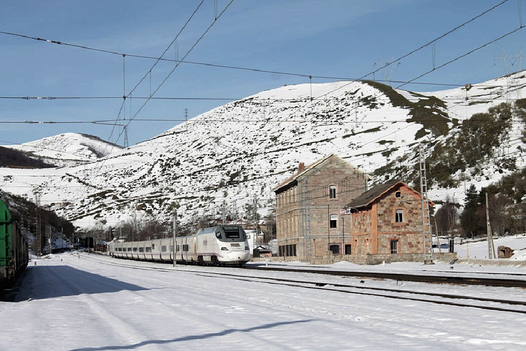 Por fin llegó la nieve a las rampas del Puerto de Pajares en este 2016. Aquí podemos ver el paso del tren ALVIA S-130 por la estación de Busdongo. Quizás este sea el último año que podamos ver el paso de este tren por Pajares a la espera de la inauguración de los túneles de Pajares.